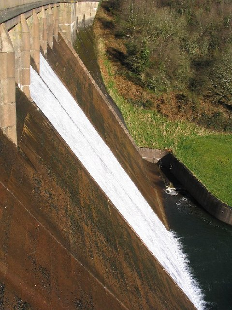 Clatworthy Dam This is the view looking across the face of Clatworthy Dam